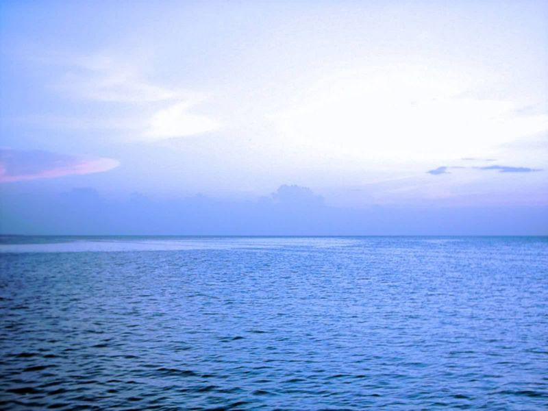 Mexican sea shore, Campeche, Mexico.